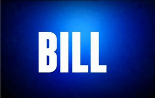 An image from the current opening title sequence of The Bill